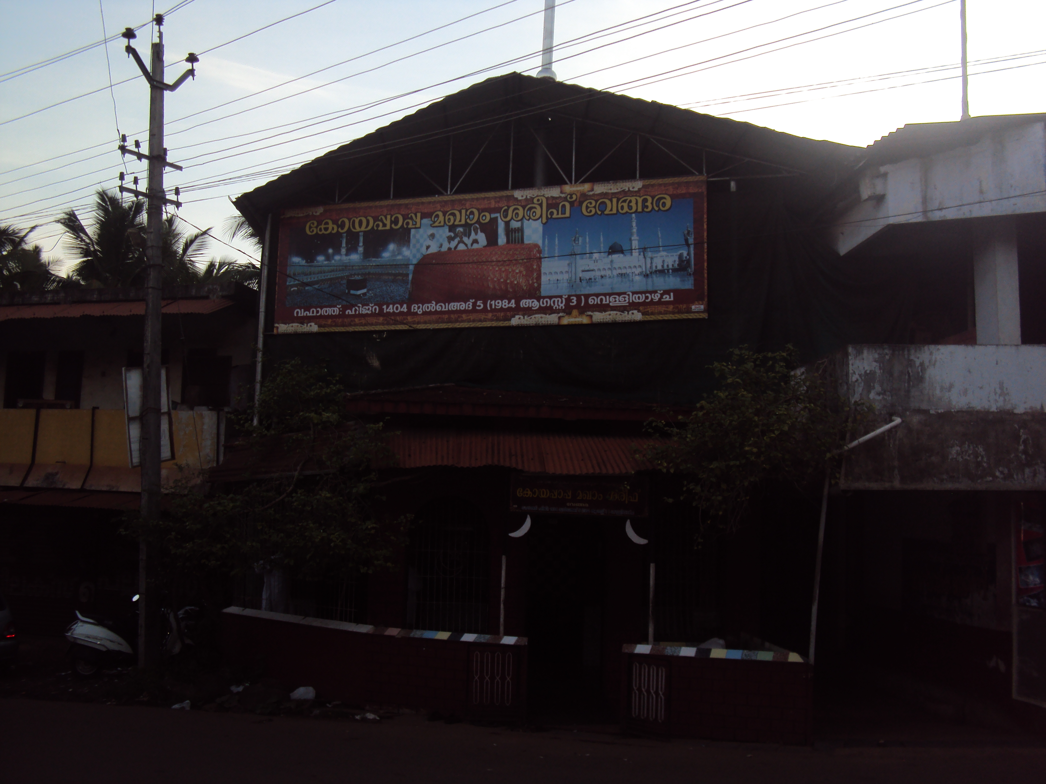 Koya Paappa Makham